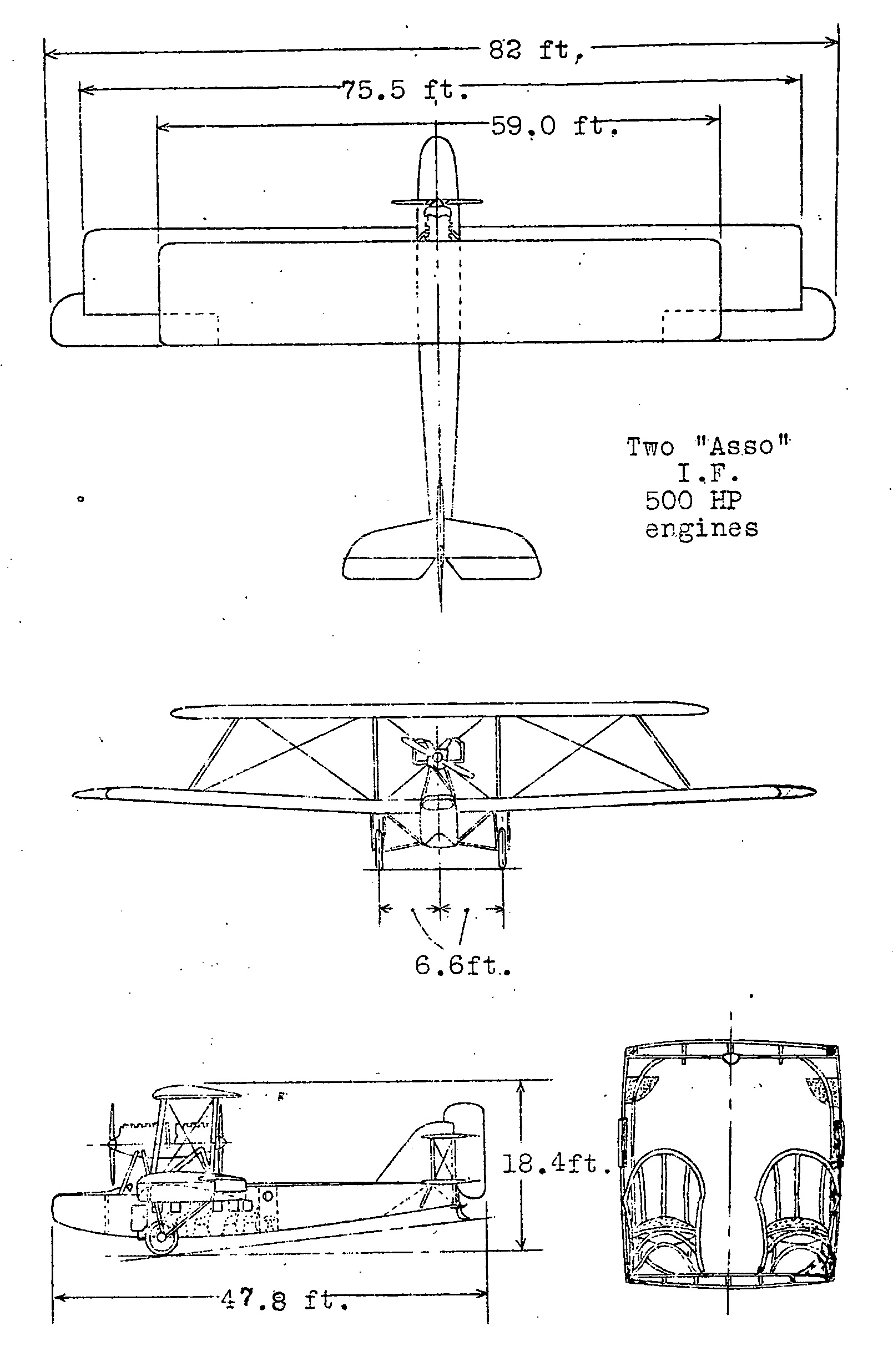 Caproni Ca.73 commericial 3-view NACA Aircraft Circular 51